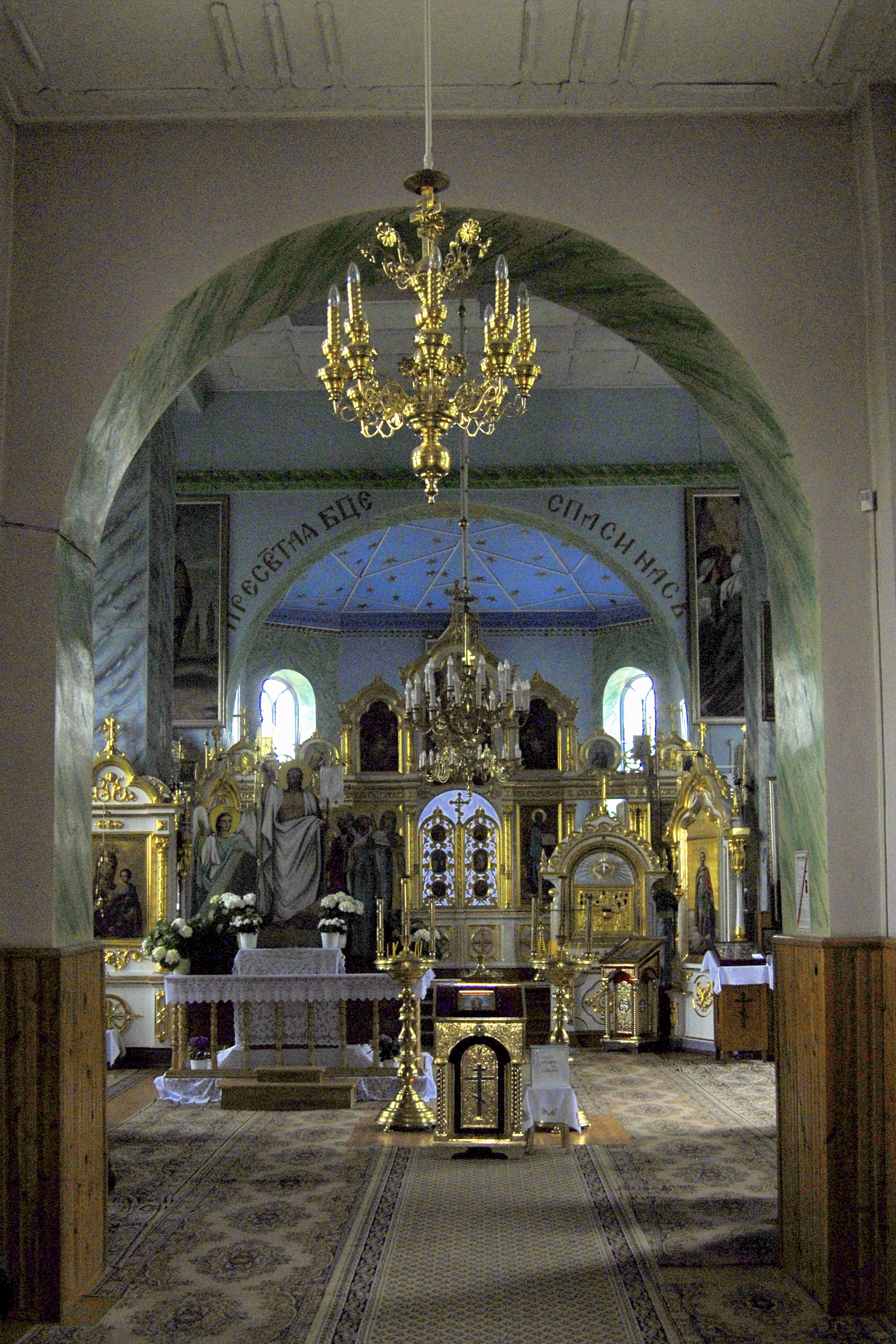 Interior of the Dormition's of the Theotokos Orthodox Church in Kleszczele (Poland)